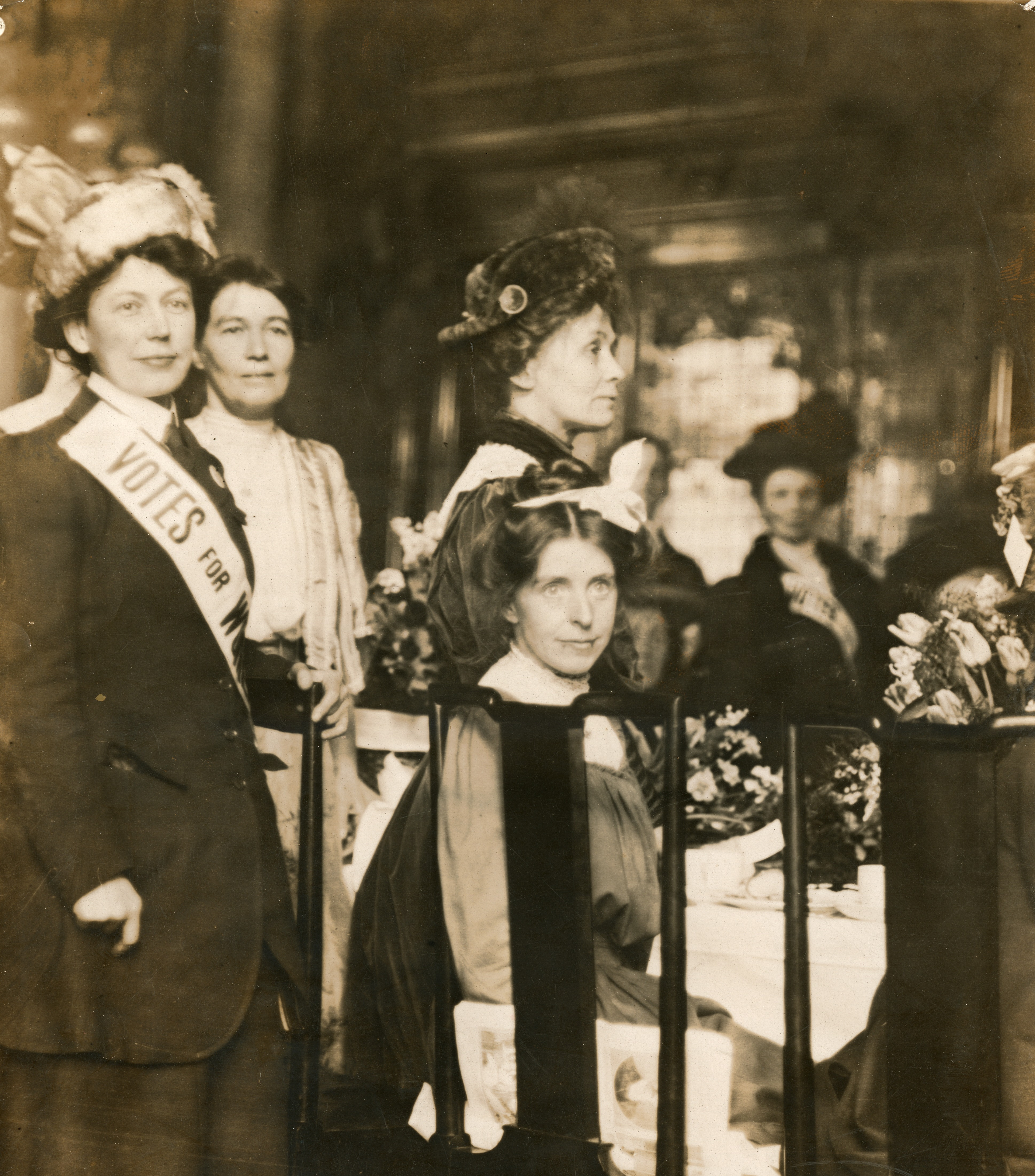 7JCC/O/02/025Photograph, printed, paper, monochrome, Emmeline Pankhurst, Emmeline Pethick Lawrence, Annie Kenney and others by a table laid for a meal, with others in the background; manuscript inscriptions on reverse 'EP Lawrence' and 'HR Kerr 73 Fellows Rd NW3', printed 'Copyright Halftones Limited, 17 Fleet Street, London EC' [photograph torn]